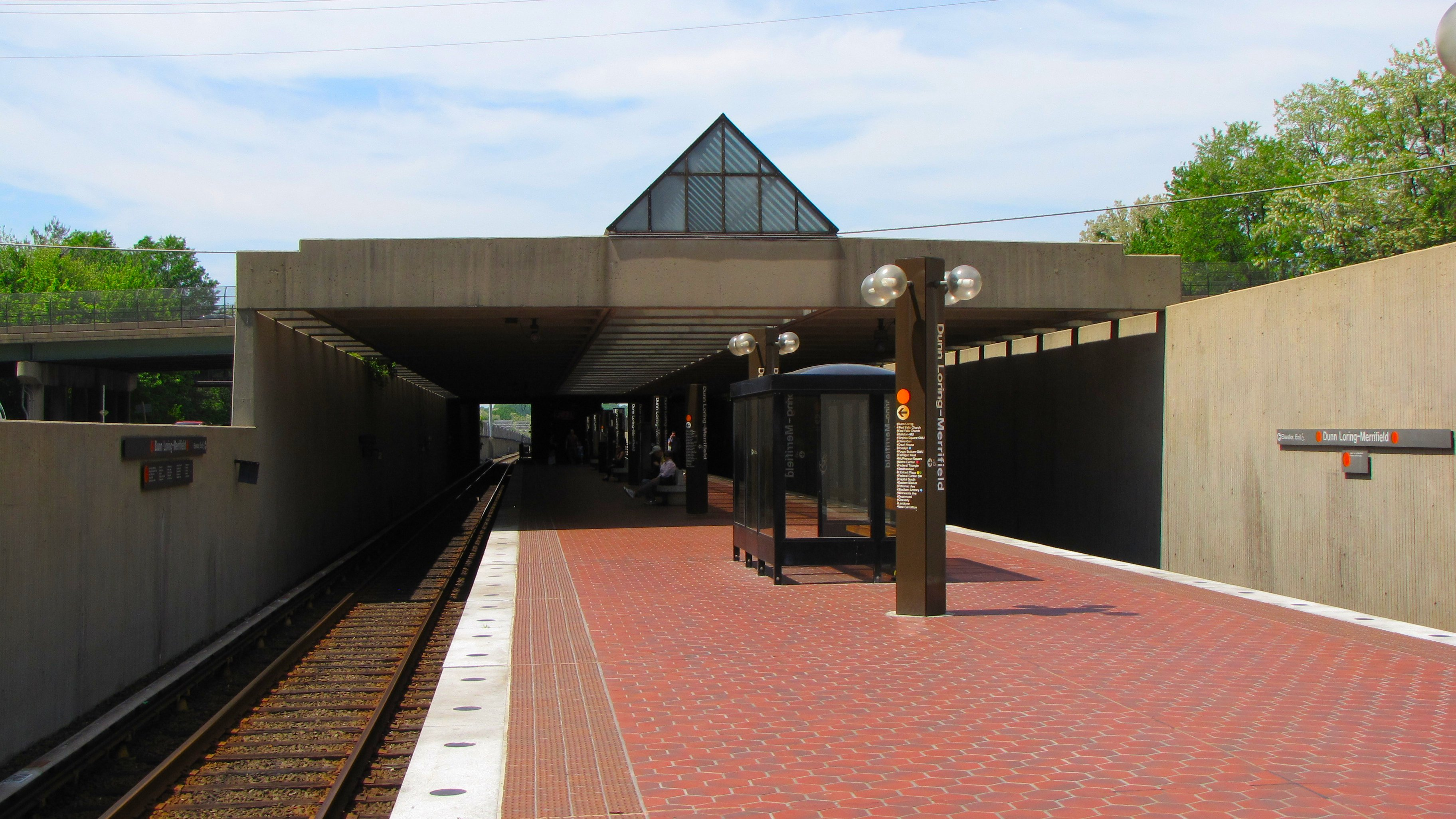 Dunn Loring-Merrifield station, viewed from the station's inbound end, facing outbound direction. In this photo, trains to New Carrollton arrive on the track on the left side, and trains to Vienna arrive on the right side track.